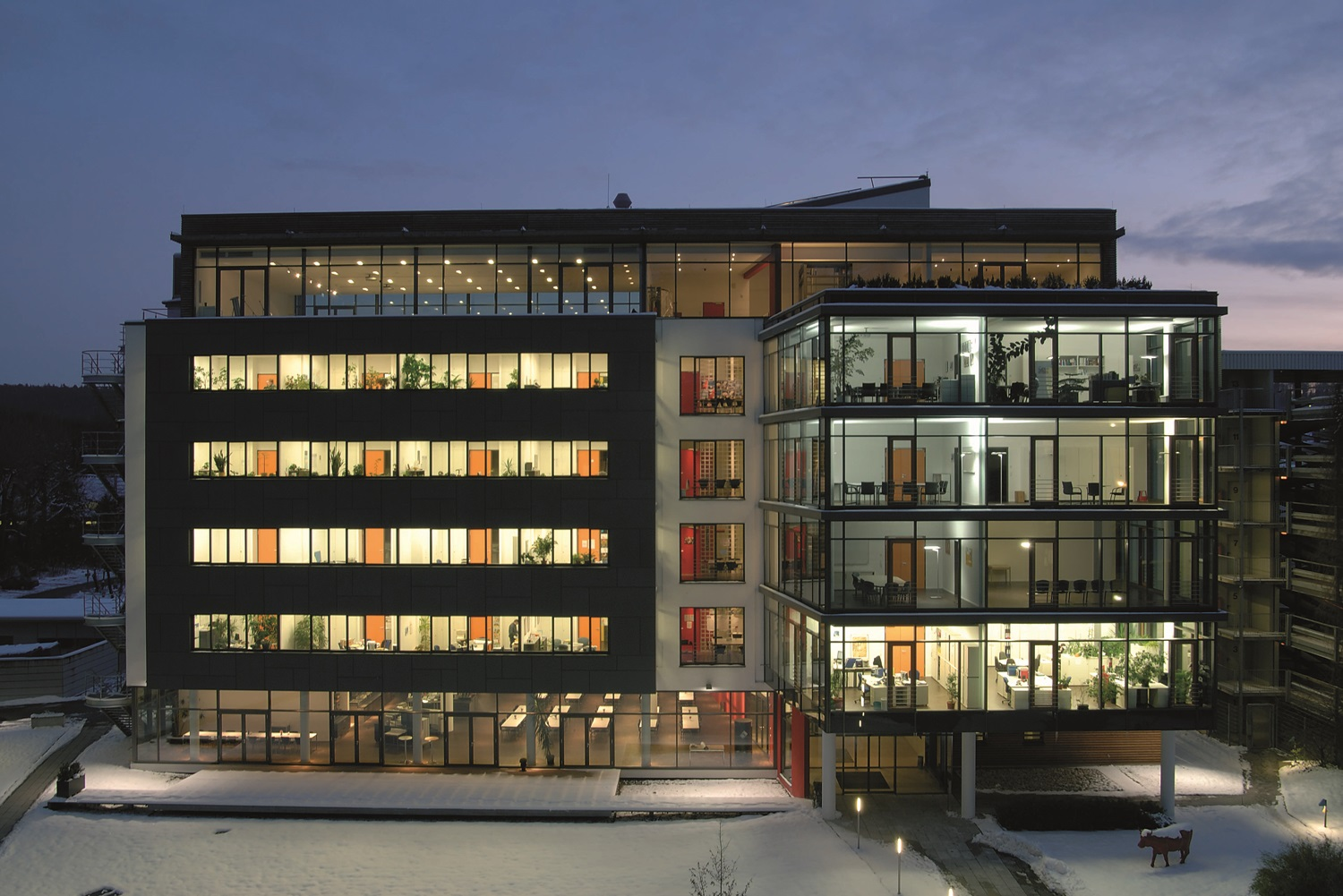 Headquarters of the CHT/BEZEMA Group in Tübingen Germany